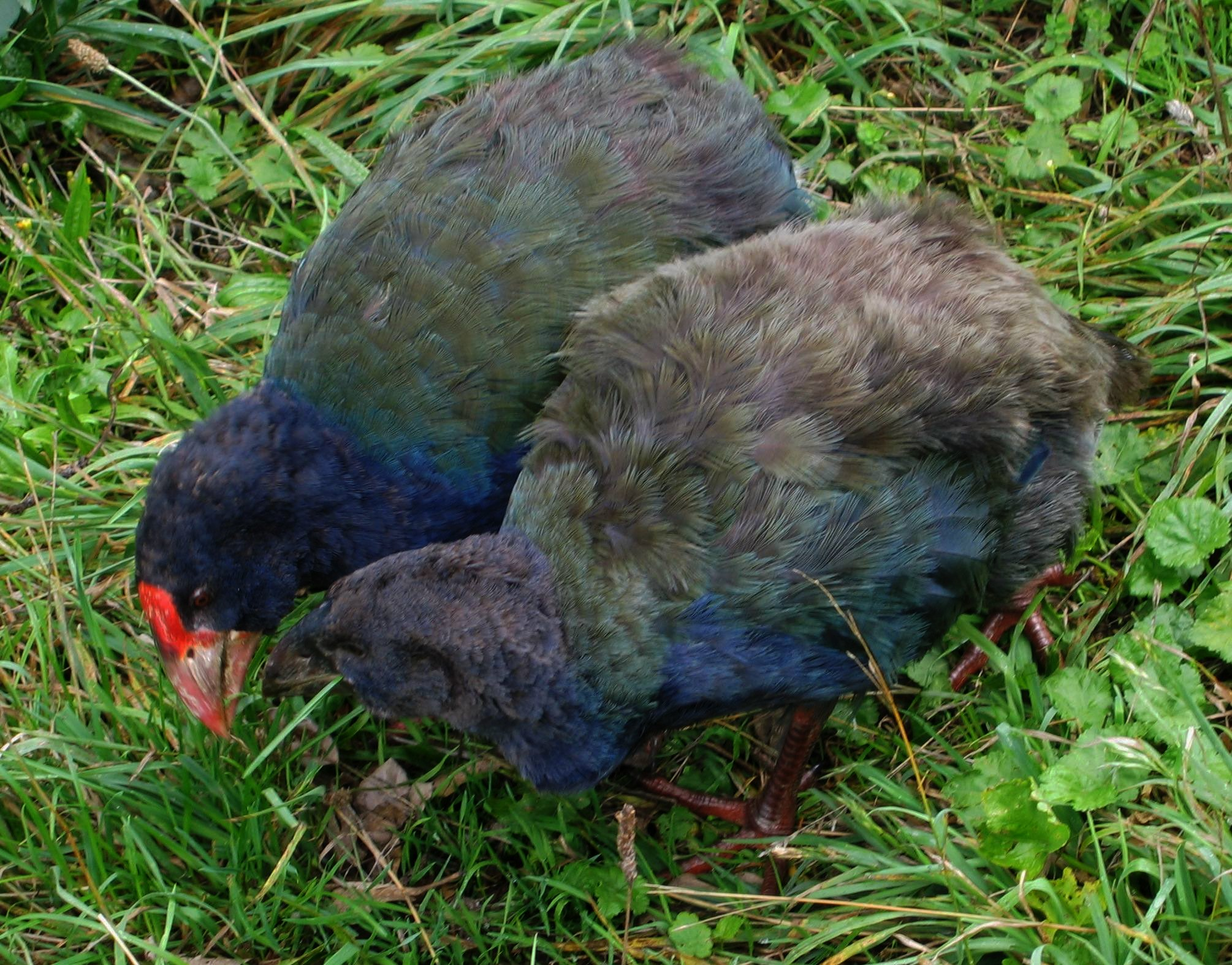 Takahē (Porphyrio hochstetteri) parent feeding chick on Tiritiri Matangi Island, New Zealand.